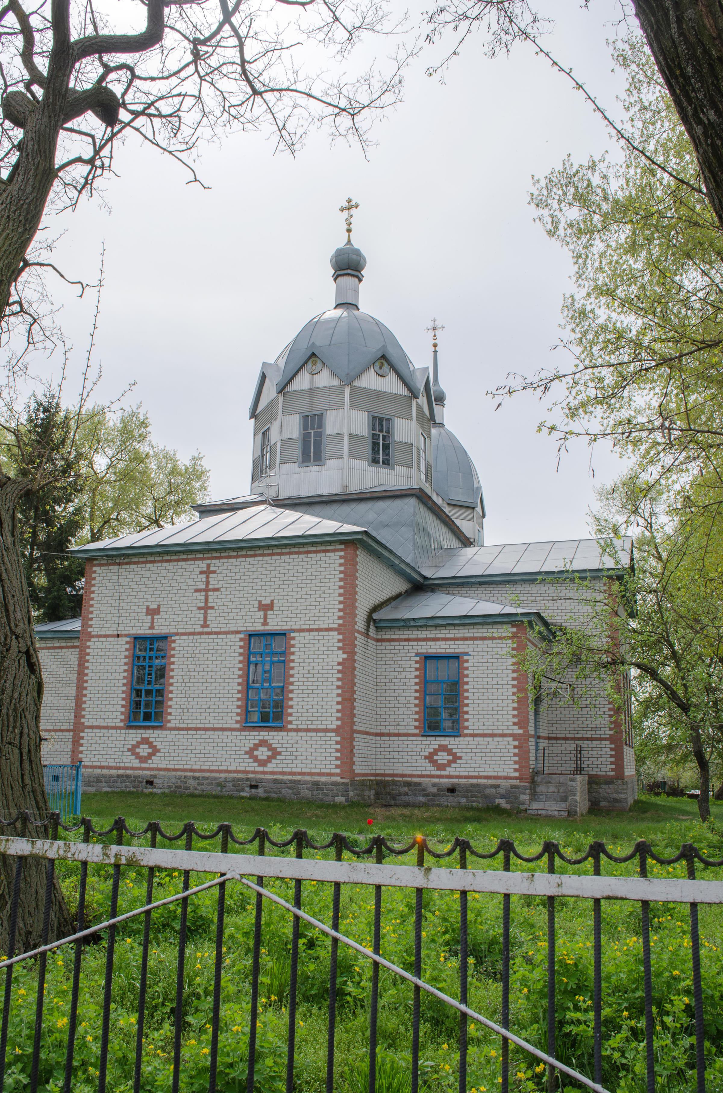 v.Brusyliv, Chernihiv Raion, Chernihiv Oblast, Ukraine